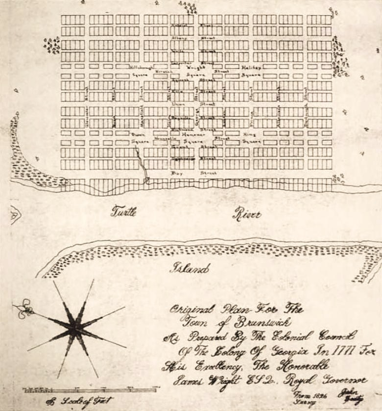 Original city plan for Brunswick, Georgia, dated 1771.